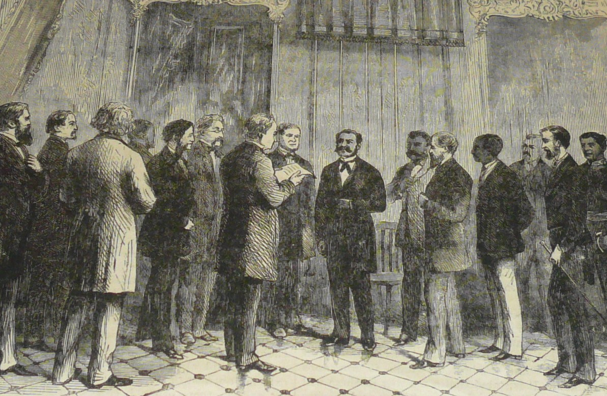 Dominican president Baez, favorable to the annexation of the D.R. to the United States, receiving the US commissioners sent by Congress to the D.R. in 1871 to ascertain the mood of the country regarding annexation. 1879 engraving.